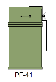 RG-41 grenade